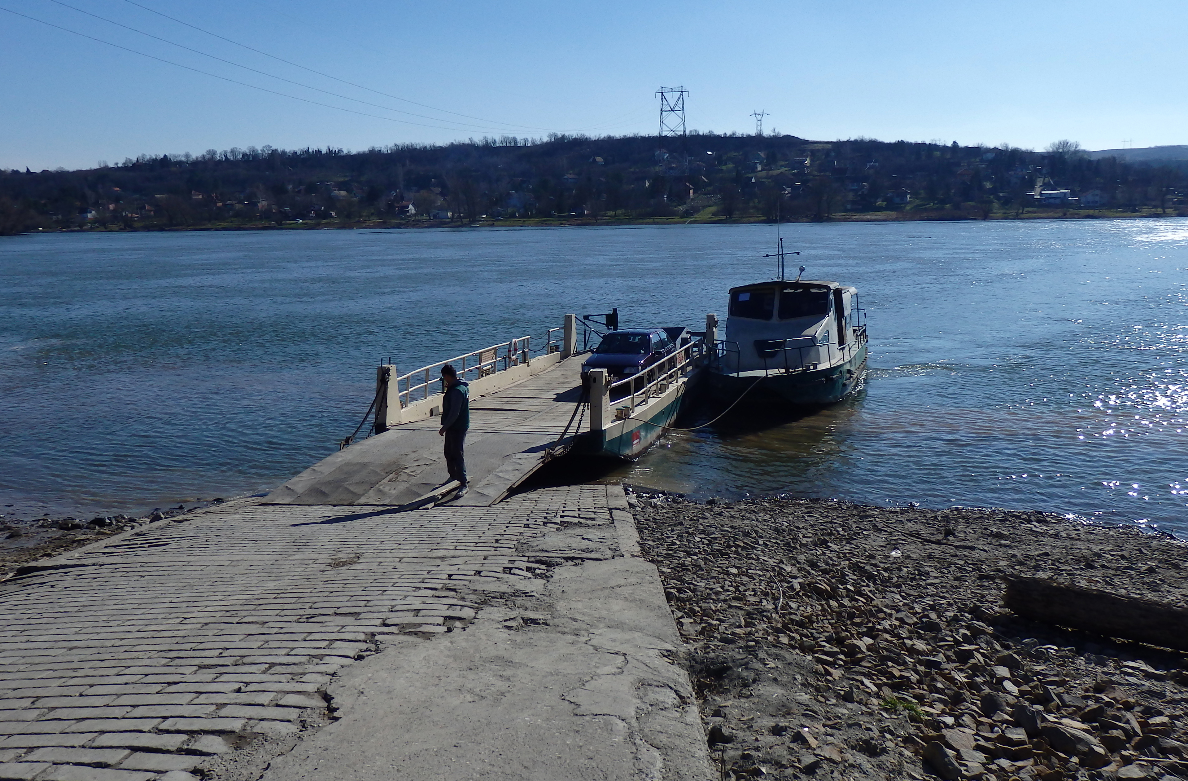 River ferry Begeč-Banoštor across Danube, Serbia. Српски (ћирилица): Скела Бегеч-Баноштор код Бегеча.